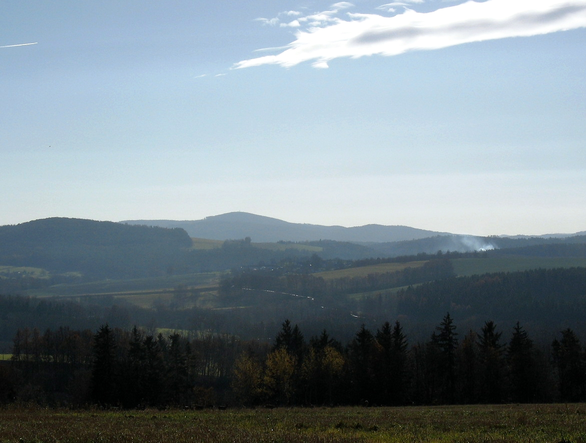 Mountain Kohout in Slepičí hory, Czech Republic